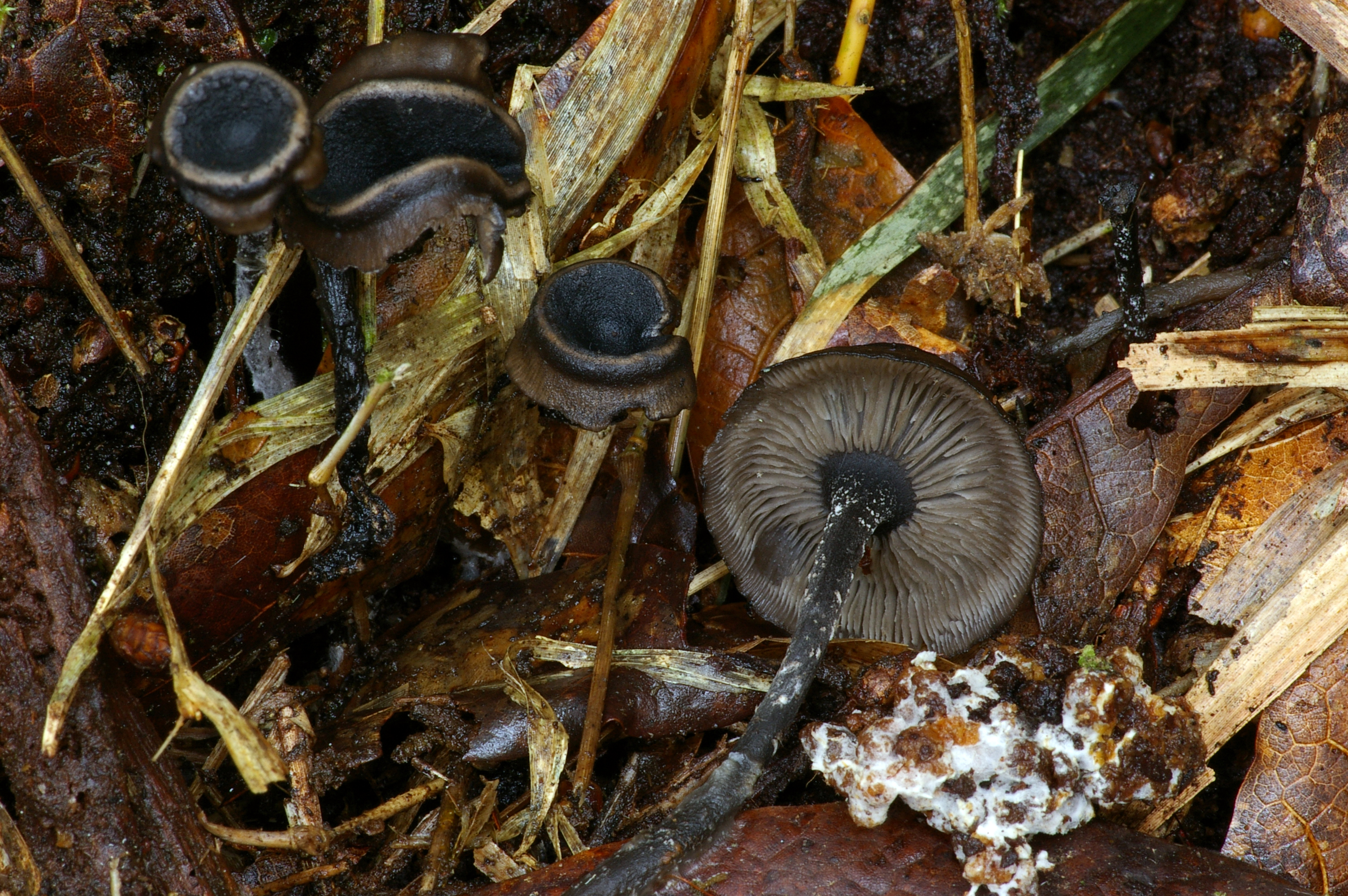 Fruit bodies of the fungus Blastosporella zonata T.J. Baroni & Franco-Mol. Specimens photographed in Murillo, Colombia. "Notes: Pictures taken during the field mycology course in Murillo, Colombia, given by Esperanza Franco-Molano of the Universidad de Antioquia in Medellin. Blastosporella zonata is characterized by the production of sexual spores in the lamellae and asexual spores in the pileus cup."